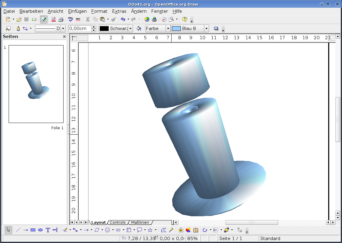 Screenshot 2.0 Draw (auf Linux)